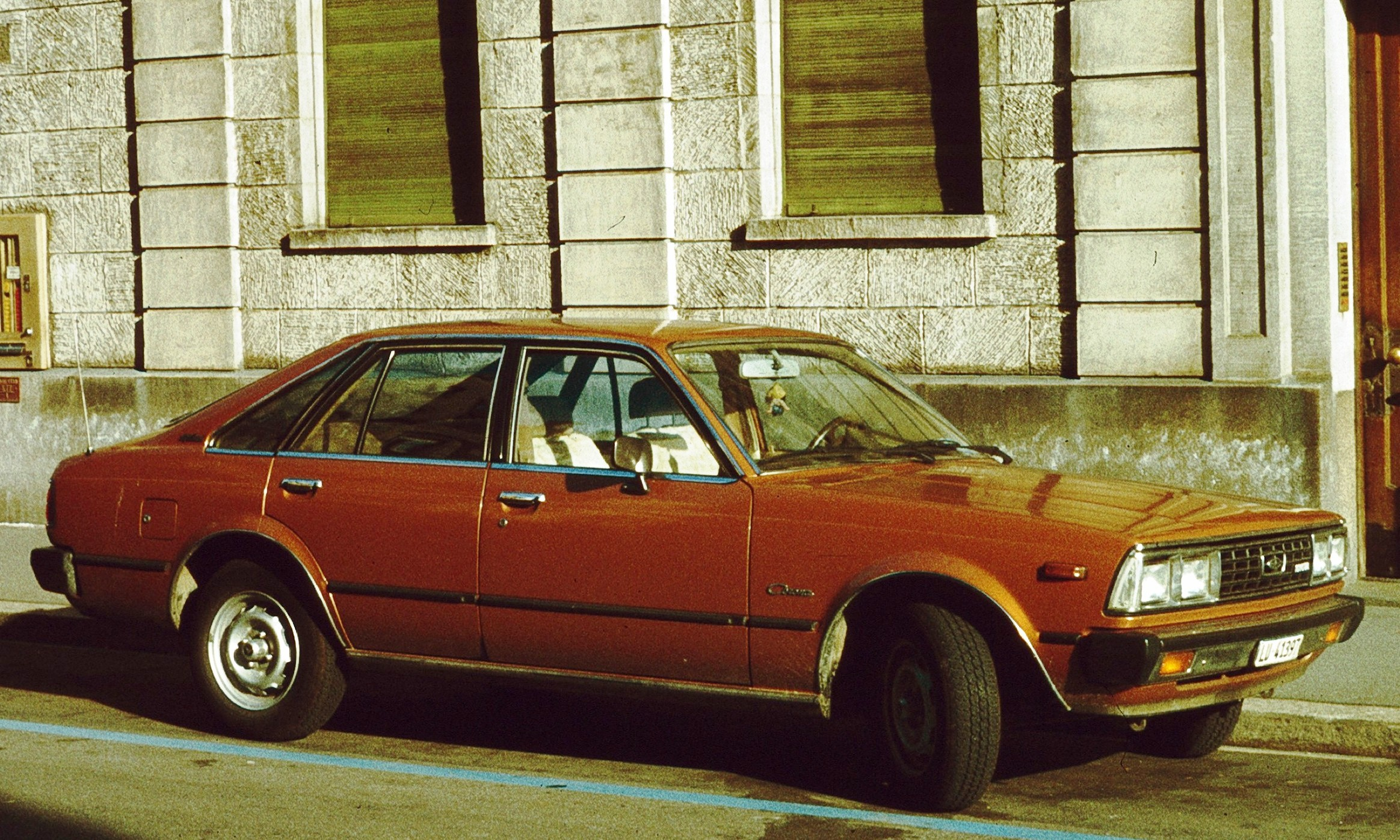 Toyota Corona T130 Liftback in Switzerland